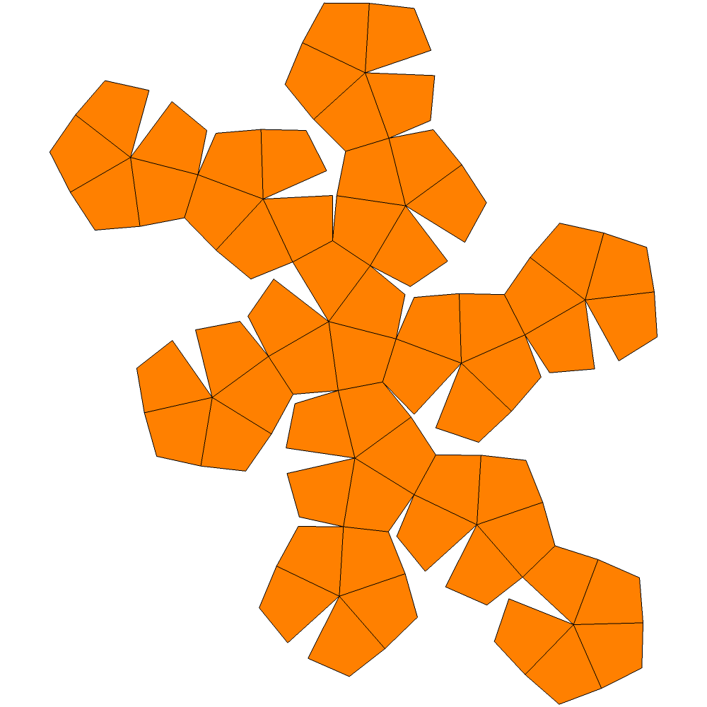 Deltoidal hexecontahedron net The copyright holder of this file, Robert Webb, allows anyone to use it for any purpose, provided that the copyright holder is properly attributed. Redistribution, derivative work, commercial use, and all other use is permitted. Attribution: Attribution must be given to Robert Webb's Stella software as the creator of this image along with a link to the website: A complimentary copy of any book or poster using images from the Software would also be appreciated where feasible. This work is free and may be used by anyone for any purpose. If you wish to use this content, you do not need to request permission as long as you follow any licensing requirements mentioned on this page.